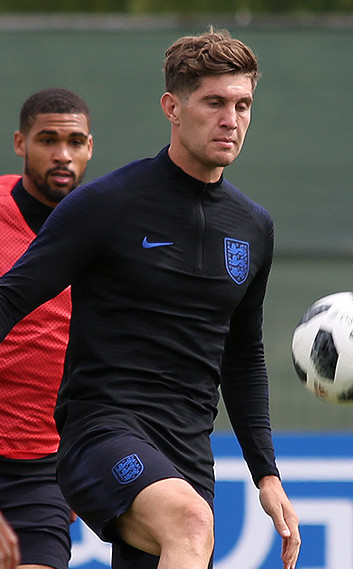 John Stones during training with England at the 2018 FIFA World Cup